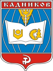 Kadnikov (Vologda oblast), coat of arms (1980)